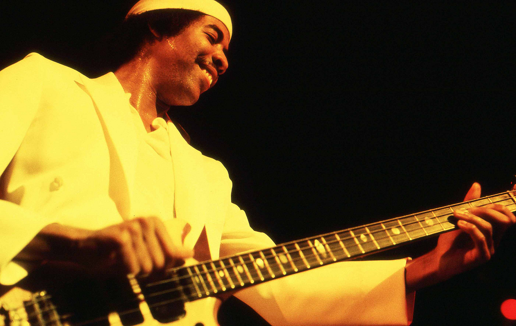 Stanley Clarke with bass guitar